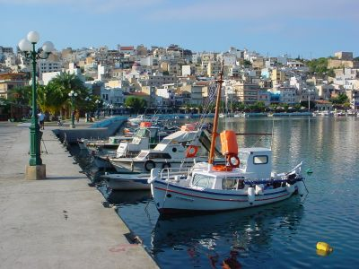 Harbour in Sitia